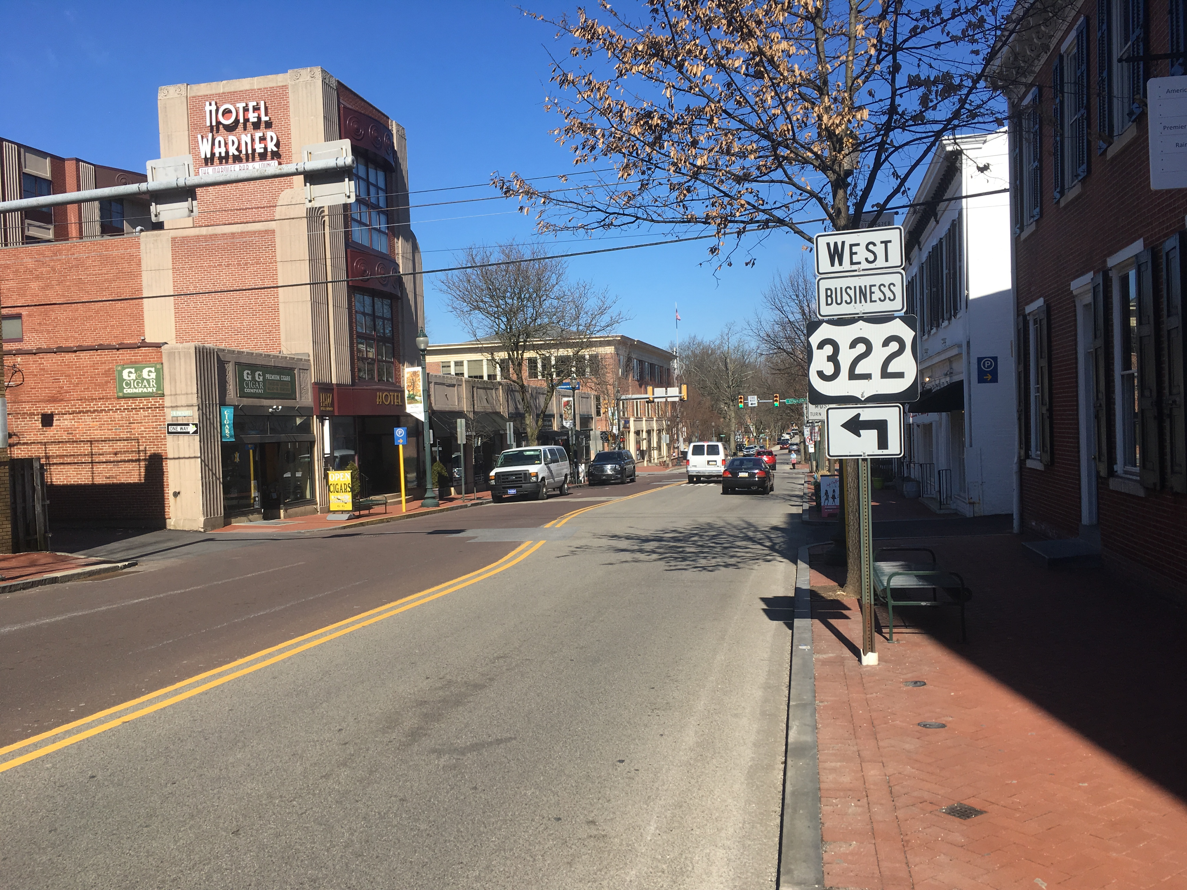 Westbound U.S. Route 322 Business (High Street) approaching the intersection with the terminus of westbound Pennsylvania Route 3 (Chestnut Street) in West Chester, Pennsylvania, where the westbound direction of the route turns west onto Chestnut Street